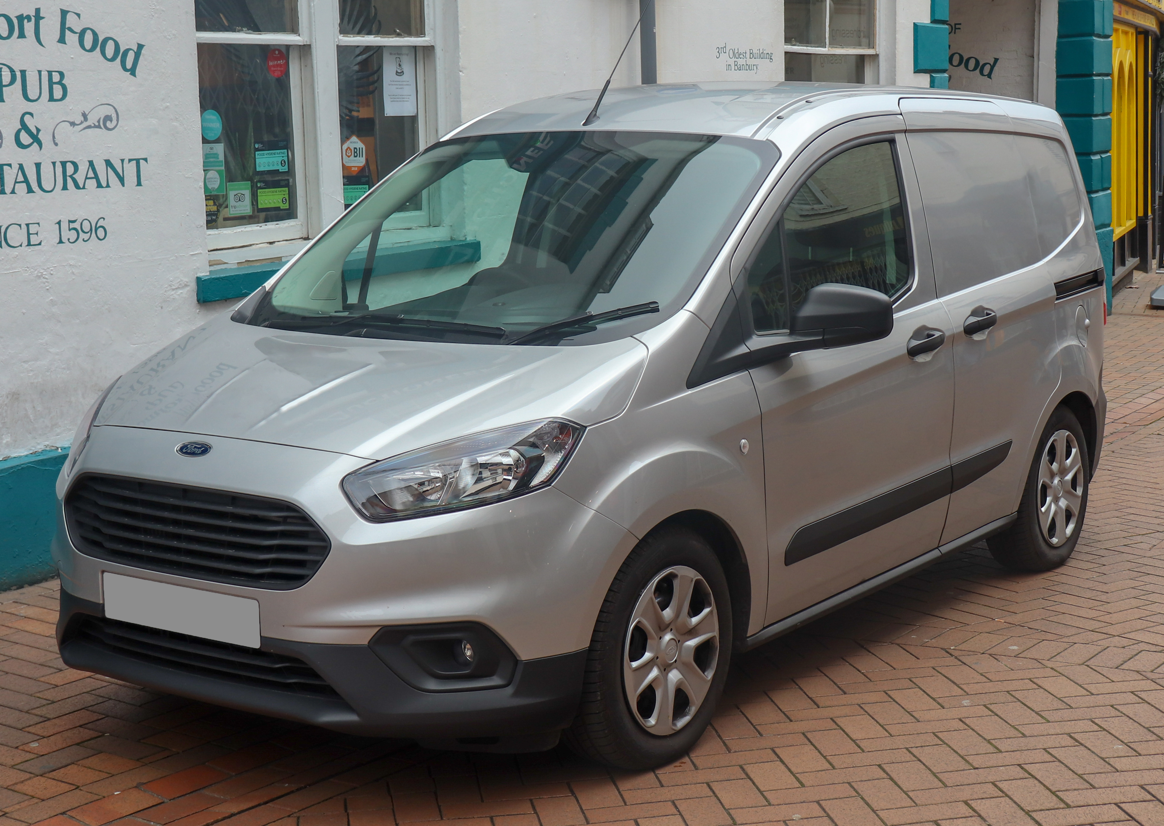 2018 Ford Transit Courier Trend facelift 1.5 Front Taken in Banbury, Oxfordshire